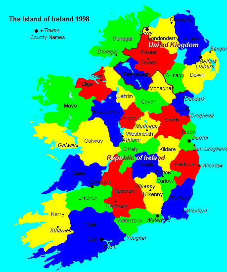 Public domain map of Irish counties. Original (See original source for PD release) Yes, it's very ugly. I'm just replacing an external link with an uploaded image.